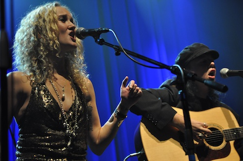 Pearl Aday - Live in Concert (photo by Scott Dudelson)